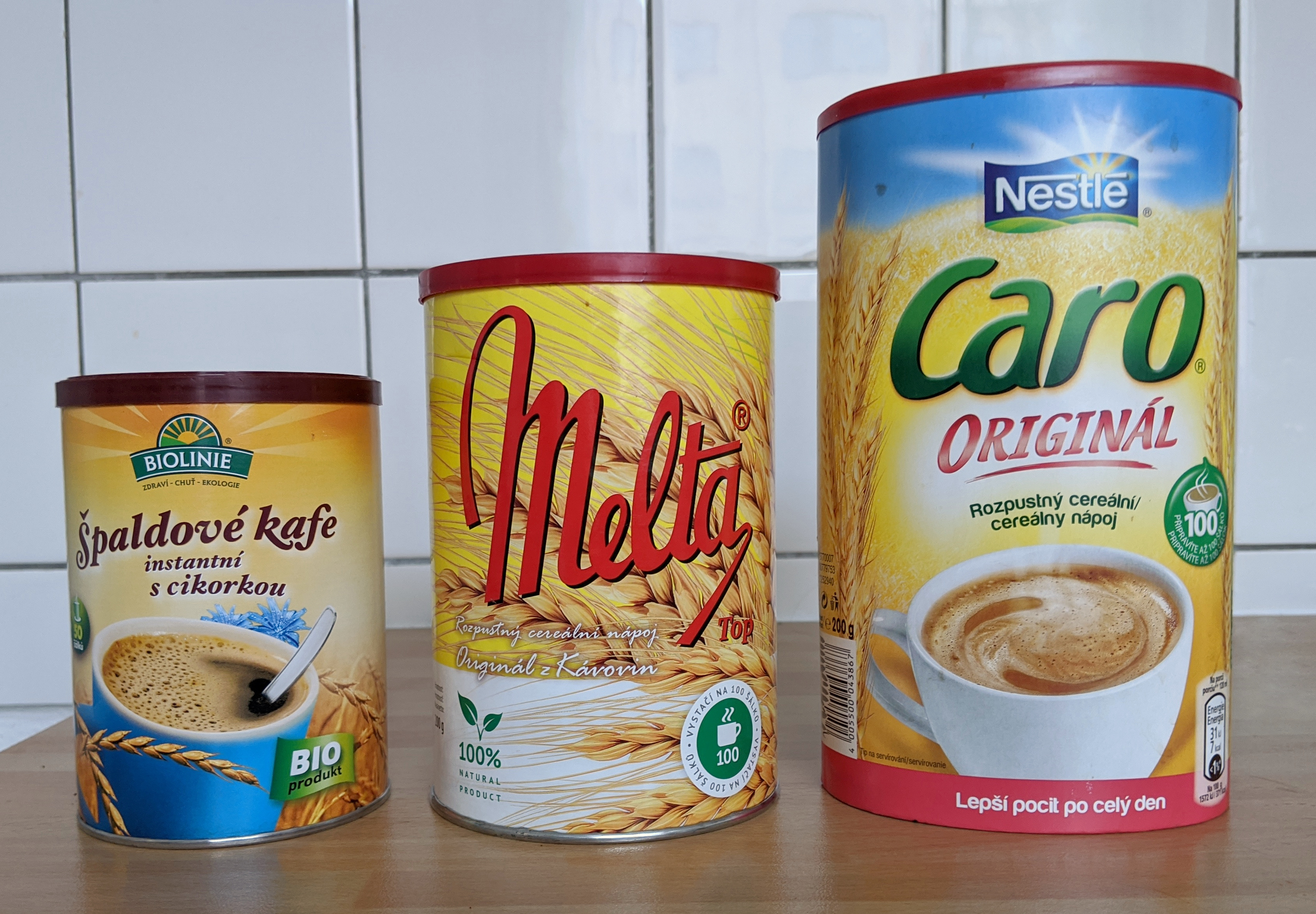 beverages containing chicory with Czech labels